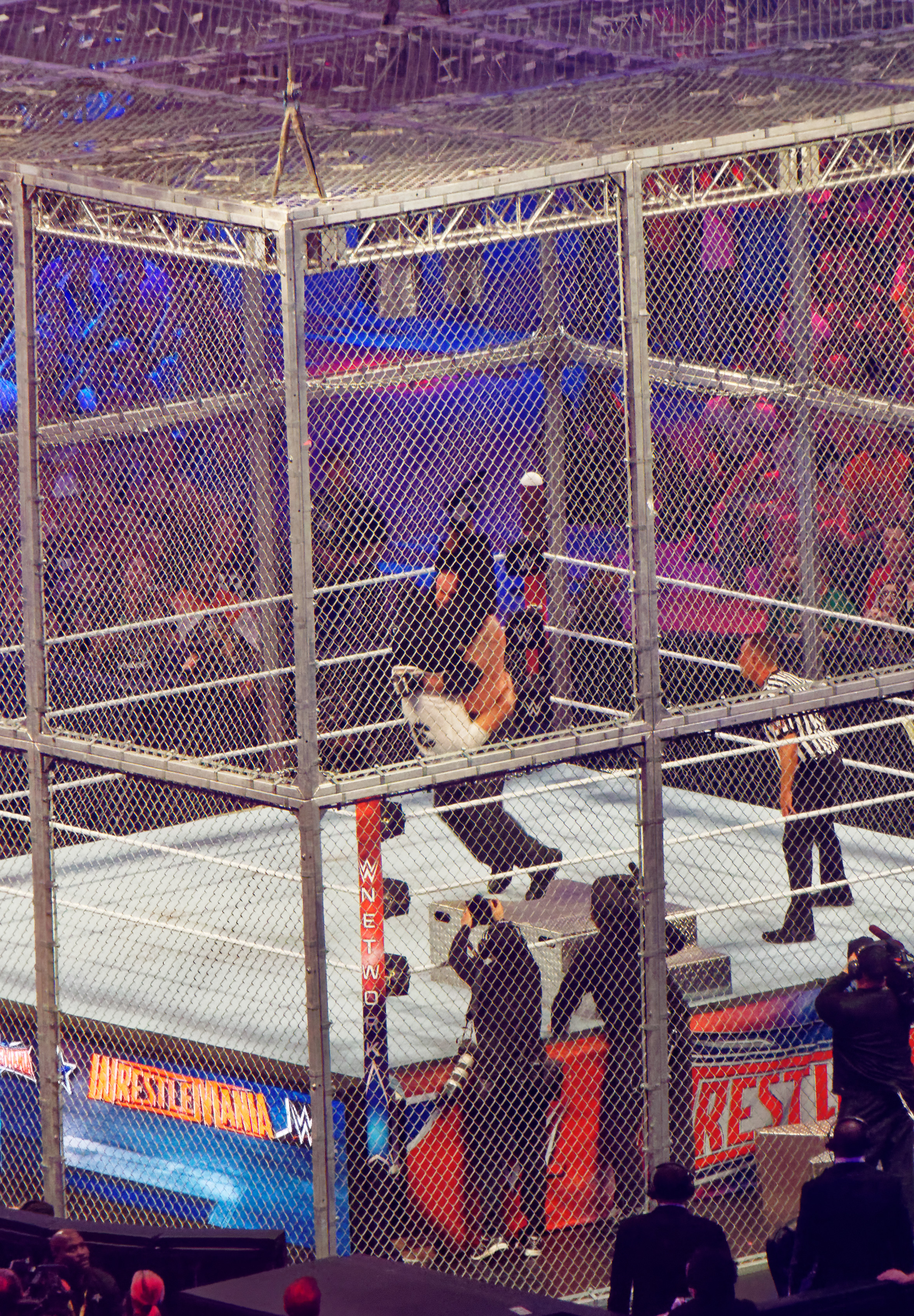 WrestleMania 32 was the thirty-second annual WrestleMania professional wrestling pay-per-view (PPV) event produced by WWE. It took place on April 3, 2016, at AT&T Stadium in Arlington, Texas. Twelve matches were contested on the card (with three matches occurring on the WrestleMania Kickoff pre-show - two airing live on the USA Network, which televised the second hour of the pre-show). The Undertaker def. (pin) Shane McMahon (in 30:02) Type of match : 'Hell In A Cell' Rating : **1/2